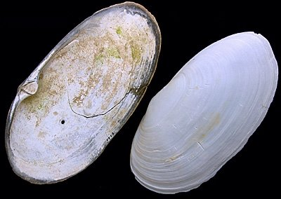 Lutraria lutraria; Fossil marine bivalved shell from the North Sea.